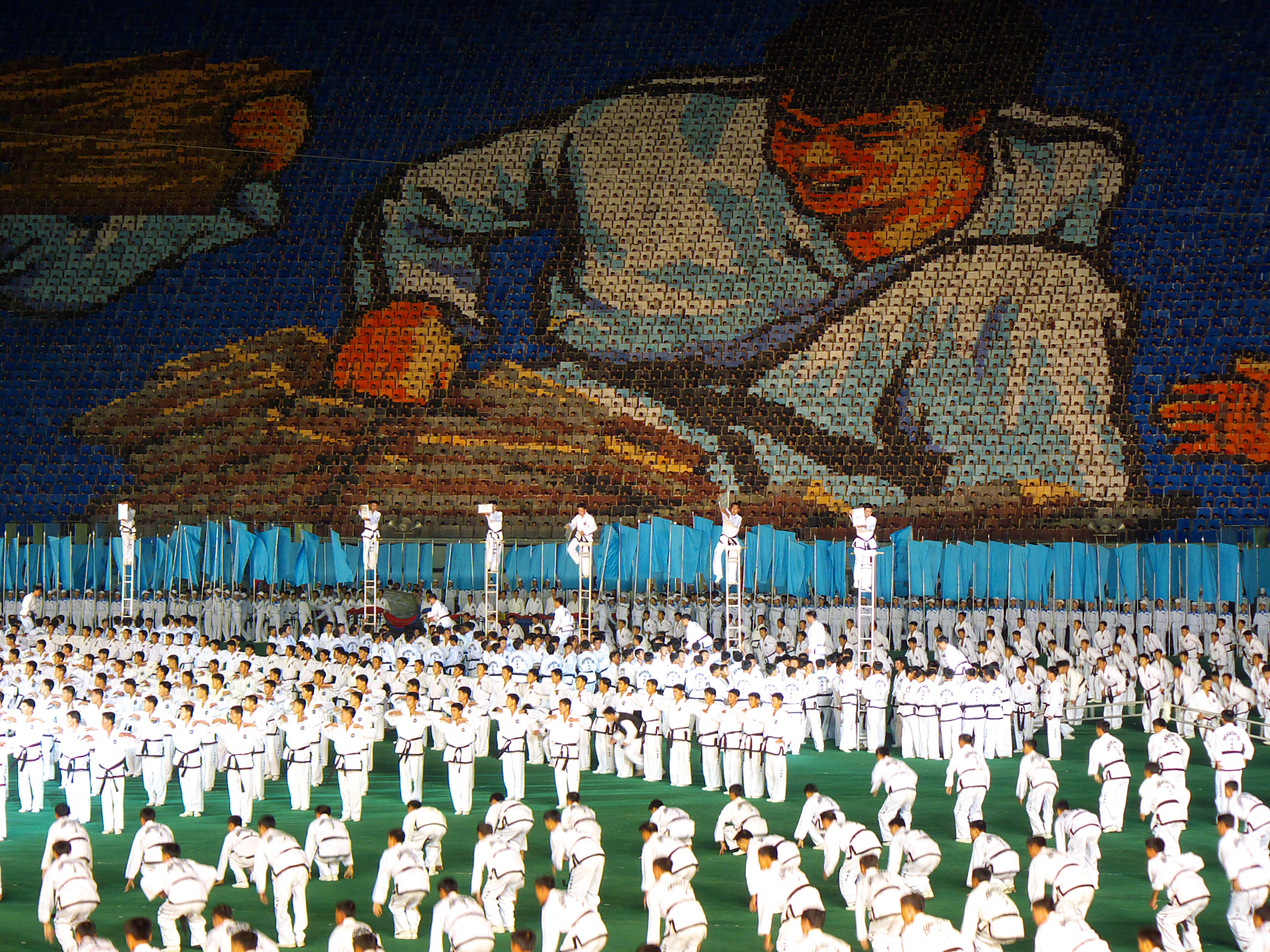 The Arirang Mass Games, held in the Rungnado May Day stadium (incidentally the largest in the world by seating capacity), retells the history of the country, well, their version of it at least. The performance is famed for huge mosaics created by thousands of school children and complex mass gymnastics and dance routines.